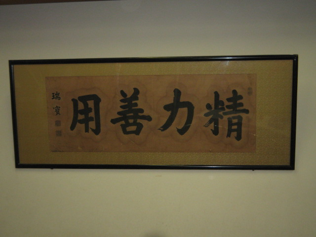 "Maximum efficiency" a slogan of KODOKAN judo